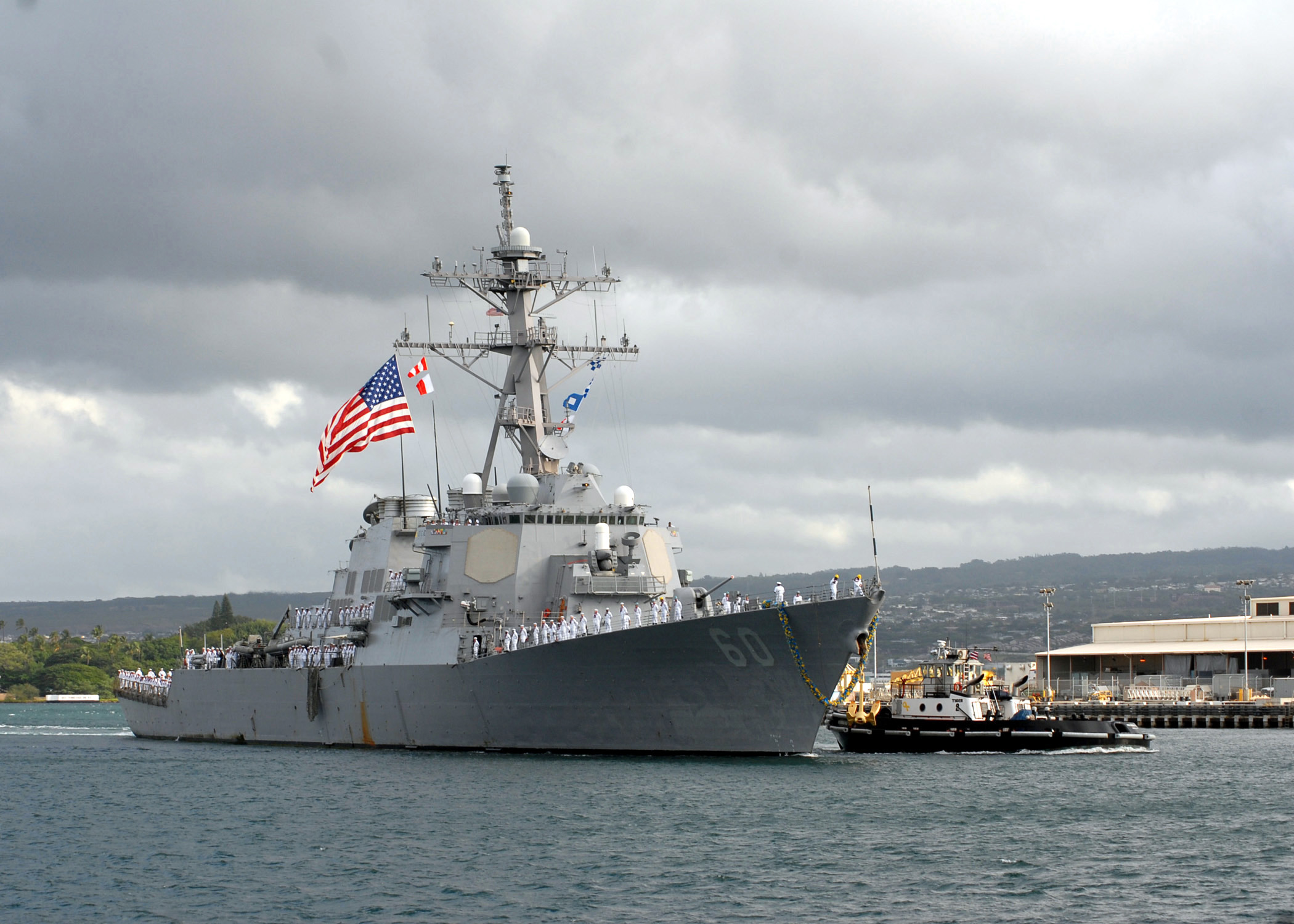 PEARL HARBOR, Hawaii (Aug. 20, 2007) - A tugboat assigned to Naval Station Pearl Harbor assists Arleigh Burke-class guided-missile destroyer USS Paul Hamilton (DDG 60) through the harbor waters as she makes her way pierside to Naval Station Pearl Harbor. Pearl Harbor-based ships Paul Hamilton and USS O’Kane (DDG 77) returned to their homeport of Naval Station Pearl Harbor Aug. 20 after completion of a seven-month deployment. U.S. Navy photo by Mass Communication Specialist 3rd Class Michael A. Lantron (RELEASED)